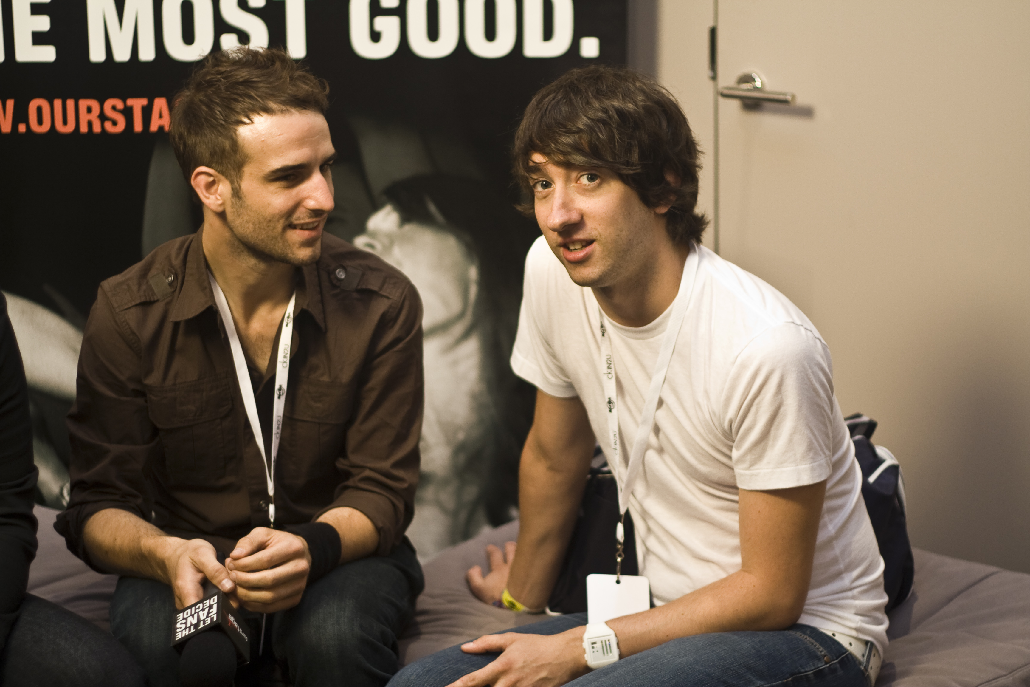 Tom Higgenson from Plain White T's on the right side.